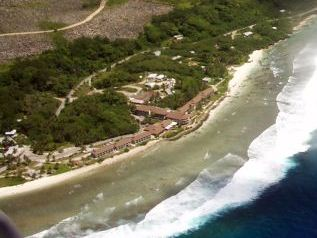 Arial view of Menen Hotel, Nauru.